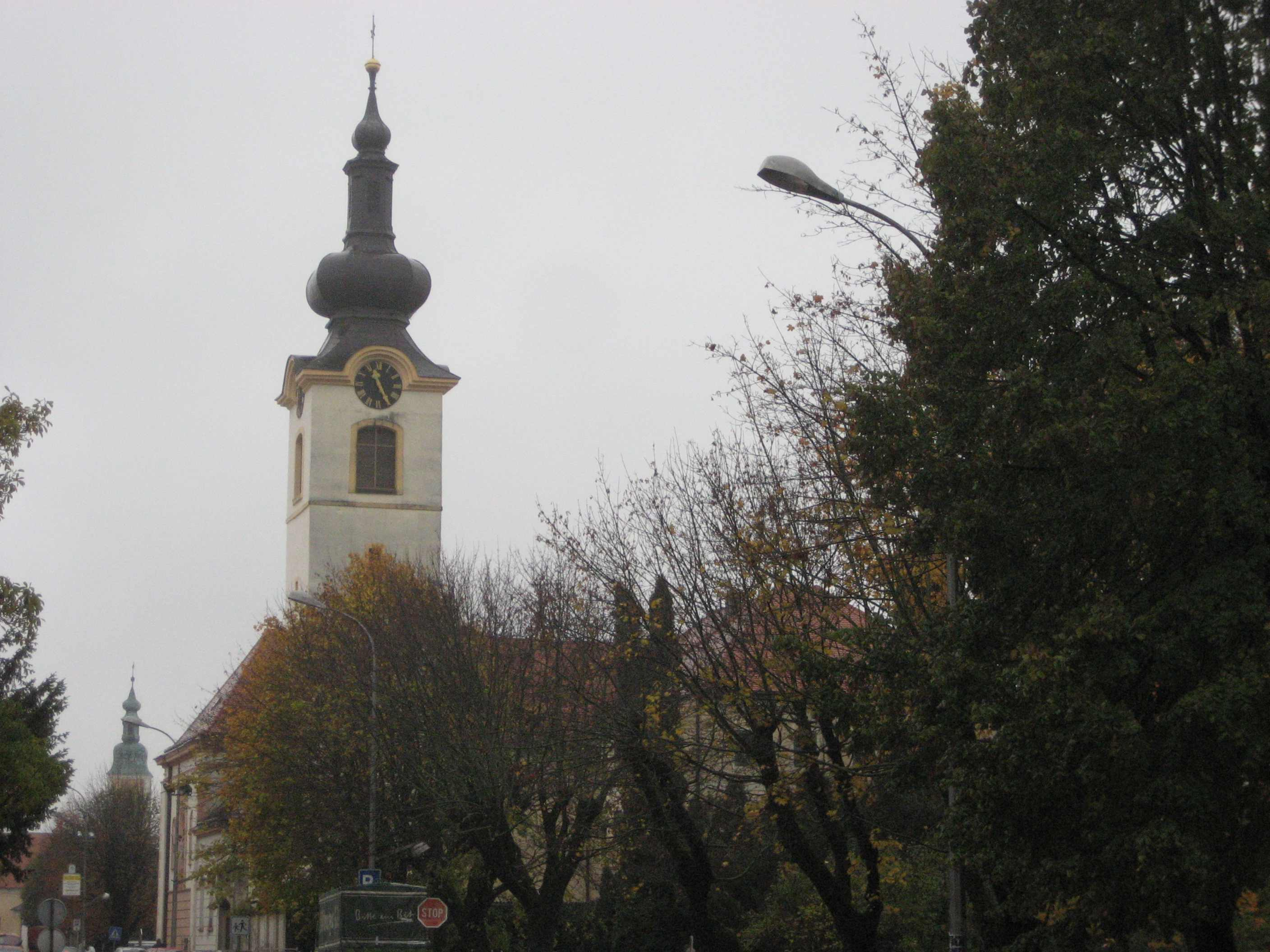 Koprivnica, Catholic Church